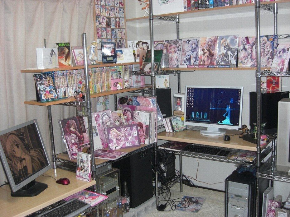 The room in winter 2008. View more at